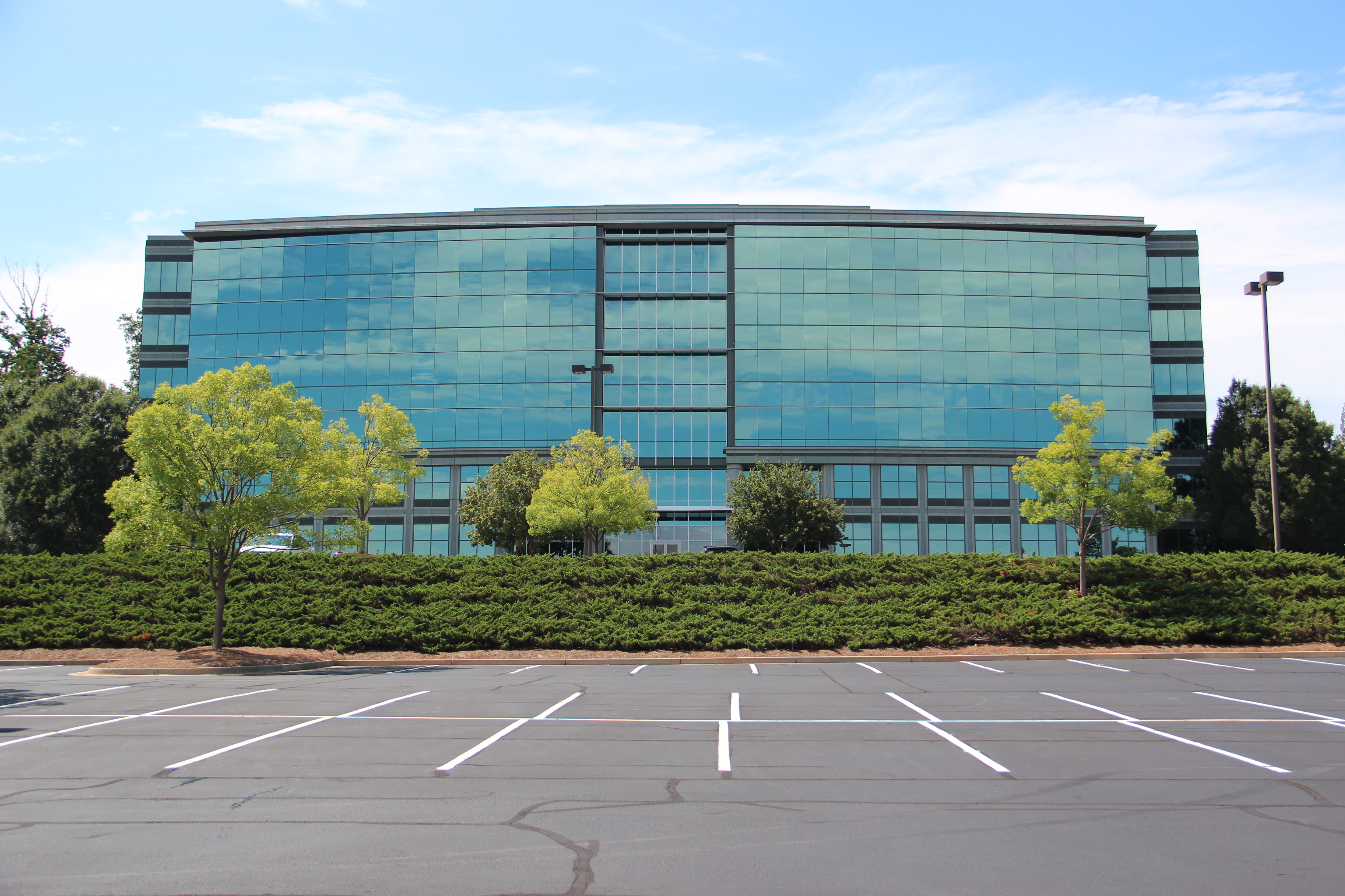 11680 Great Oaks Way, Alpharetta, GA